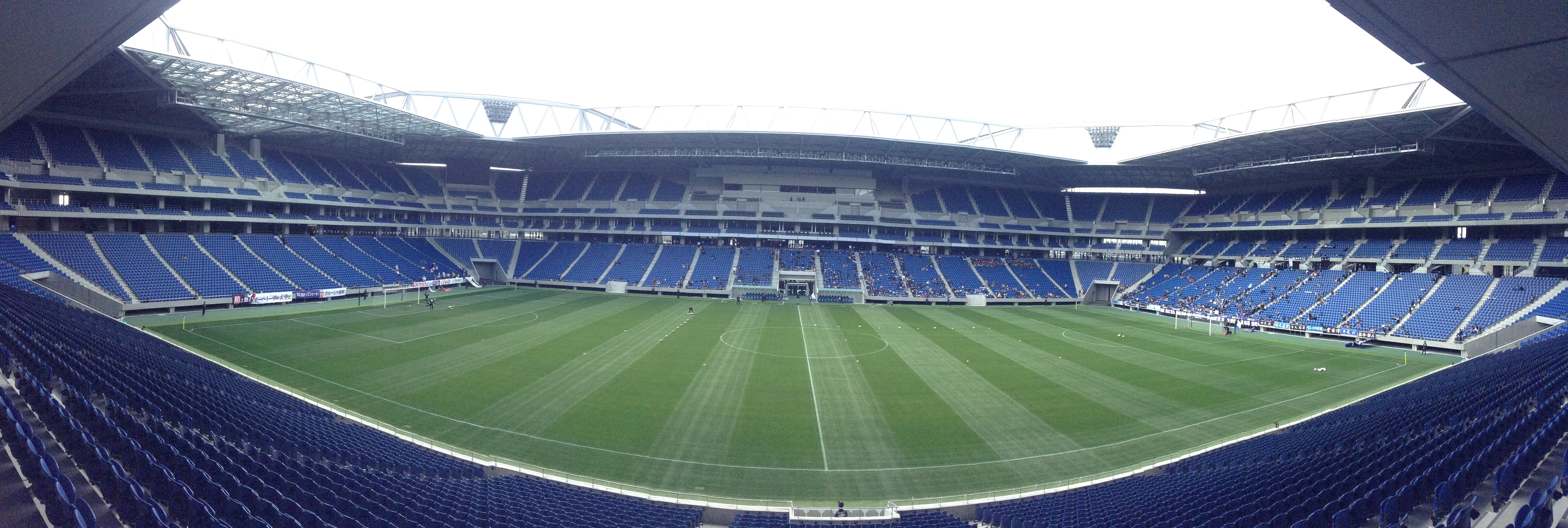 The panoramic photograph of Suita City Football Stadium , J3 League , Gamba Osaka U-23 vs Grulla Morioka, 20 March, 2016.